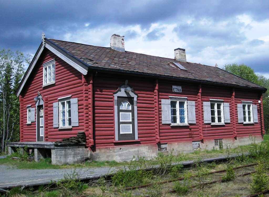 Etna station on the Valdres line